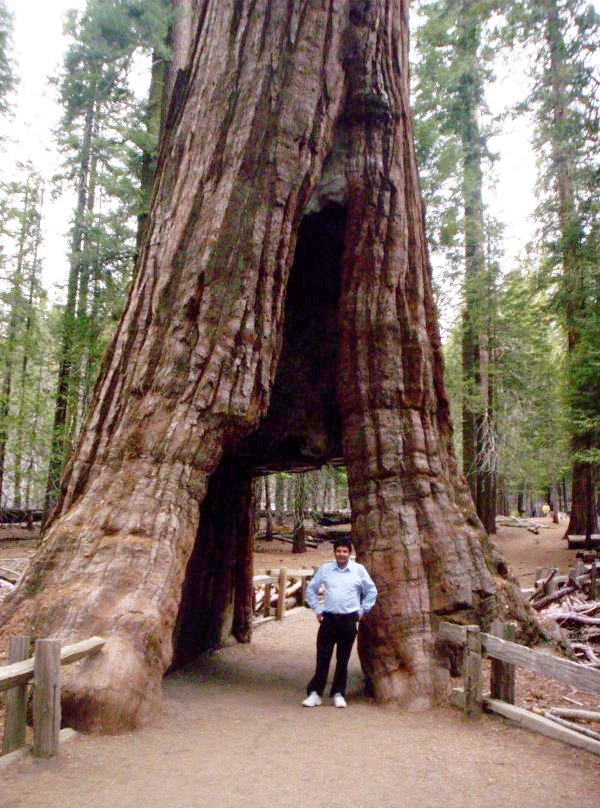 California Tree, a Sequoiadendron giganteum in Yosemite National Park